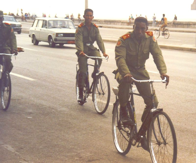 Photo taken 1994. Cuban soldiers on bicycles.